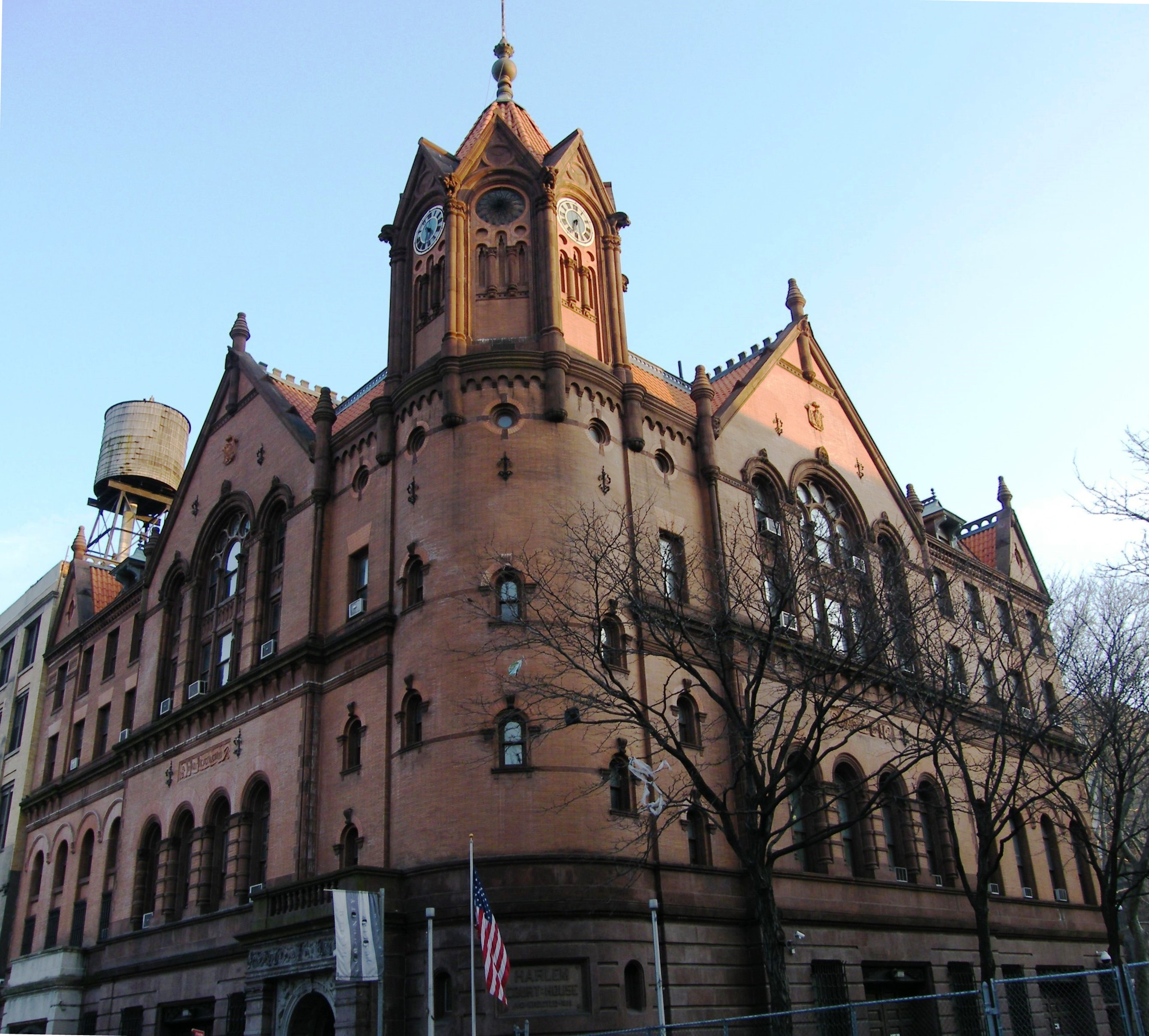 Looking southeast across 121st at Harlem Courthouse in New York City on National Register of Historic Places. 170 E121st St. NYCLPC designation 1967; Guidebook map 18.